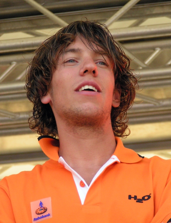 The Dutch racing cyclist Thomas Dekker at the team presentation for the Deutschland Tour 2006 in Düsseldorf, Germany.